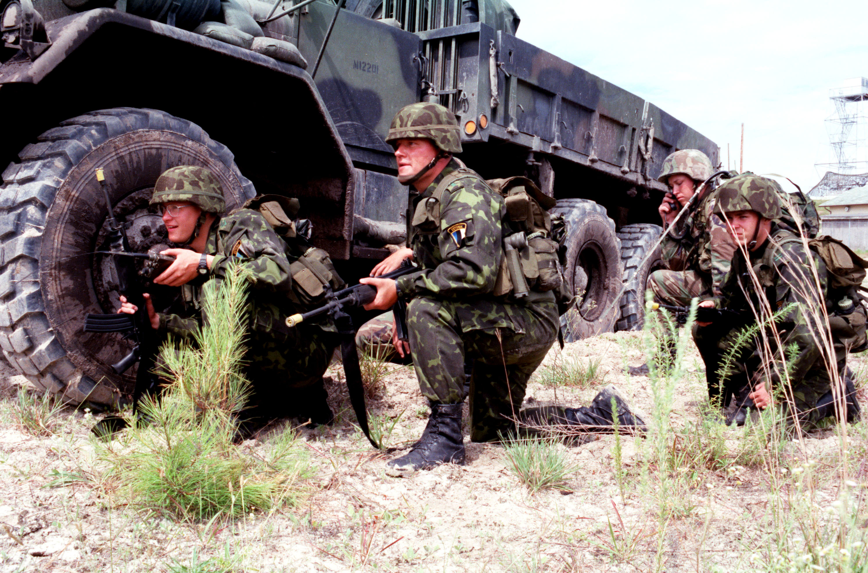 Estonian soldiers crouch alongside an M923 5 ton truck as they wait for further orders during Convoy Operations as part of situational training during Exercise Cooperative Osprey '98 on June 10, 1998, at Marine Corps Base, Camp Lejeune, N.C. Cooperative Osprey '98 is a Partnership for Peace situational training exercise designed to improve the interoperability of NATO and partner nations through the practice of combined peacekeeping and humanitarian relief operations. Partner nations include Albania, Bulgaria, Estonia, Georgia, Kazakstan, Kyrgyzstan, Latvia, Lithuania, Moldova, Poland, Romania, Ukraine, and Uzbekistan. Participating NATO nations include Canada, The Netherlands, and the United States.